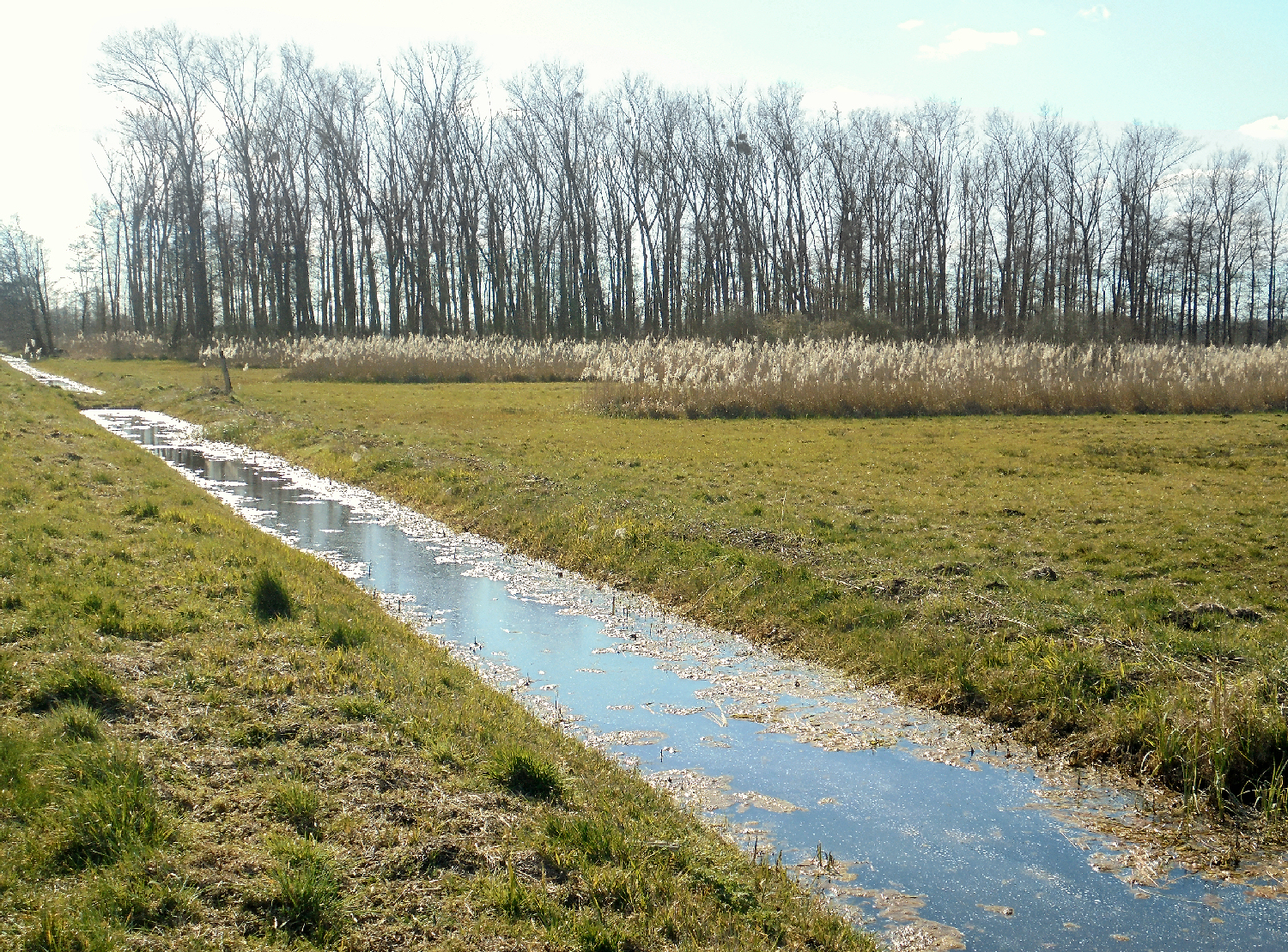 Nördlicher Drömling (nature reserve) near Rühen, Lower Saxony